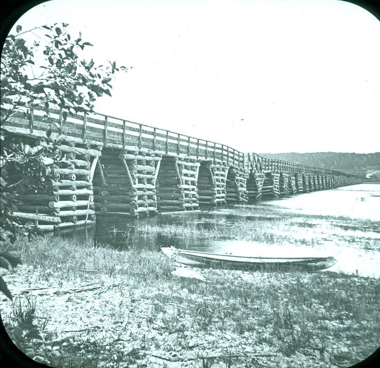 Bridge Across Mouth of the Nerepis River, Westfield, Kings County, New Brunswick, Canada.